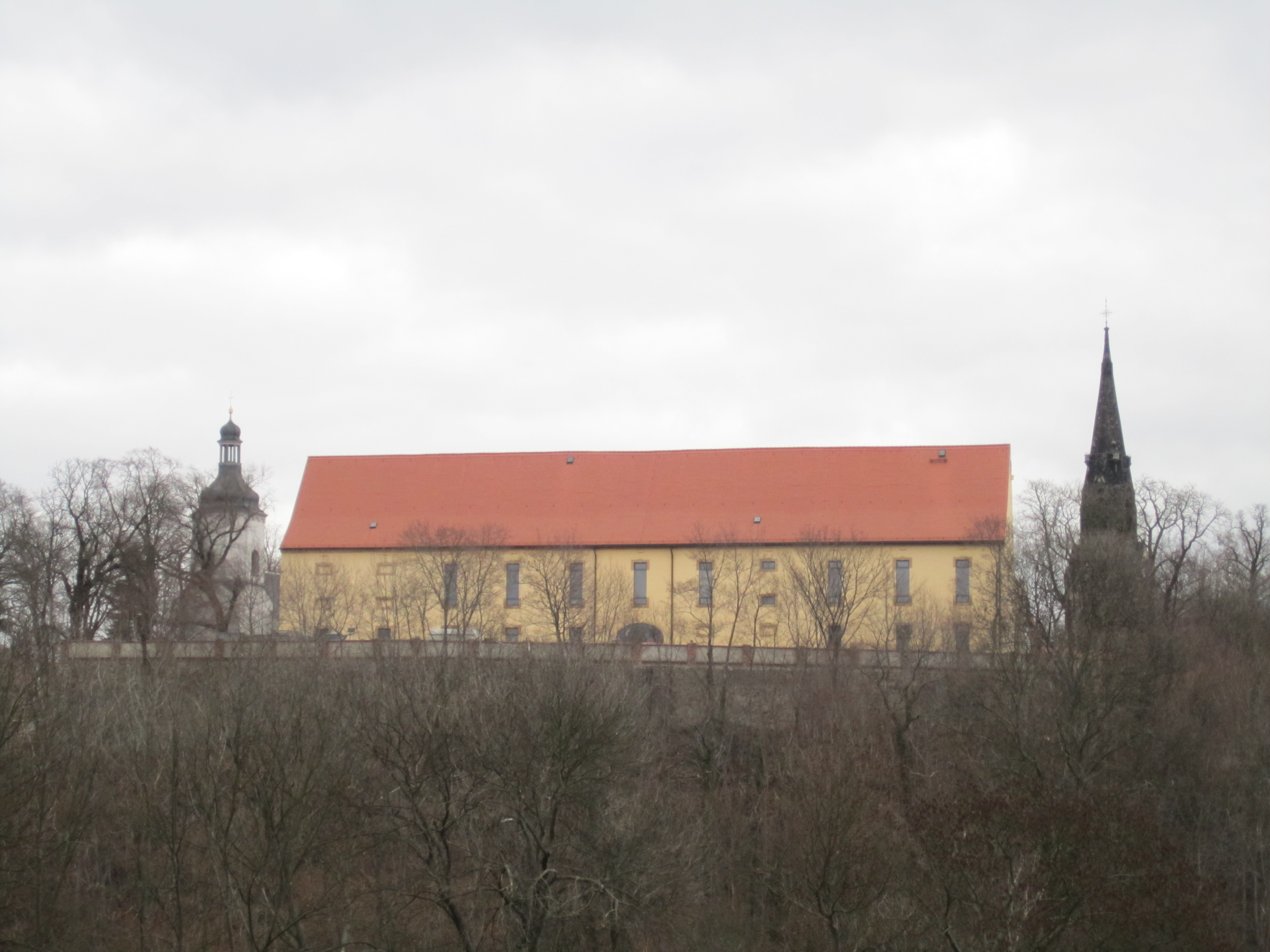 Planitz castle in Niederplanitz, city of Zwickau, Saxony, Germany.